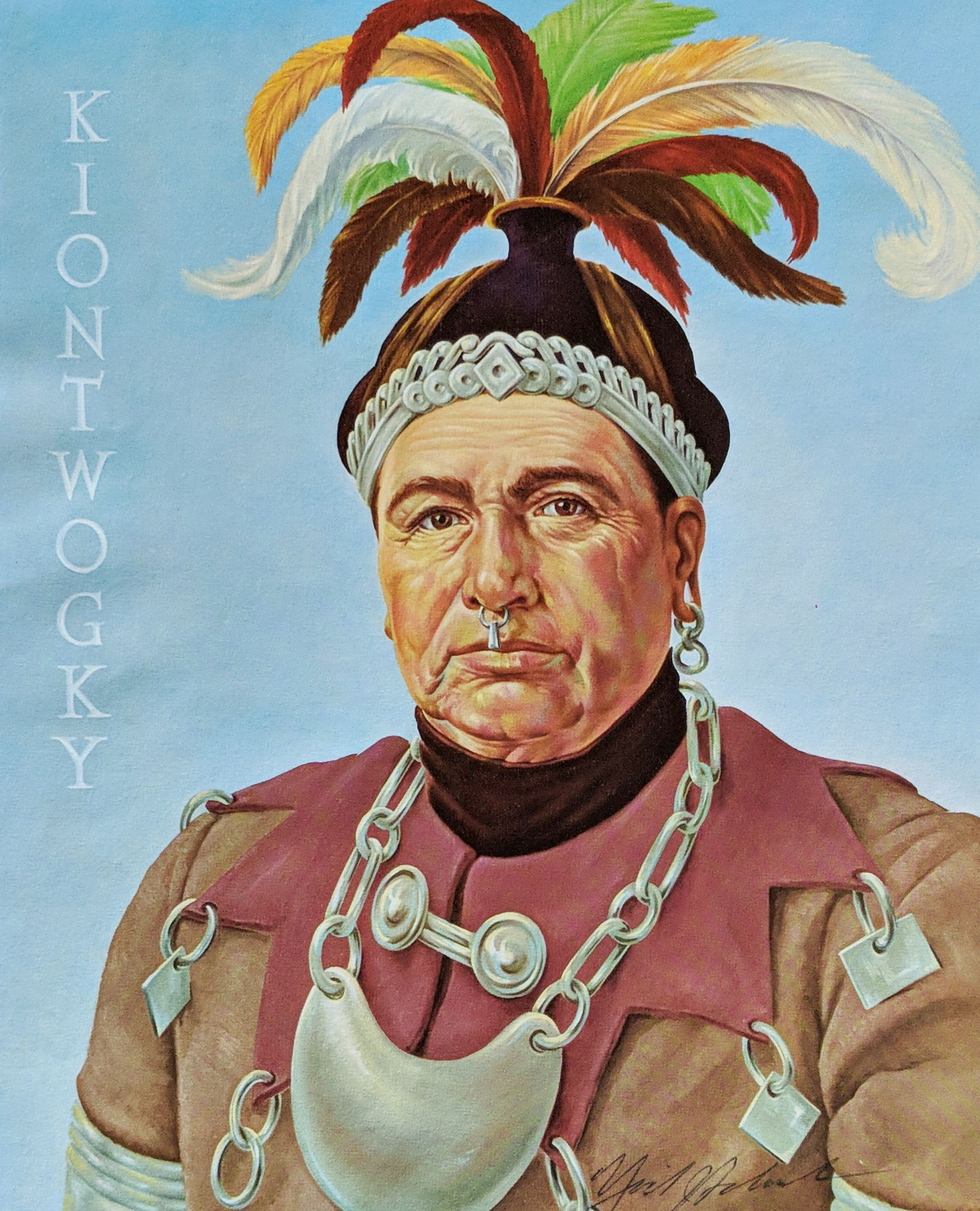 Oil painting of Kiontwogky, a Seneca Chief, by artist Nick J Schwab Jr